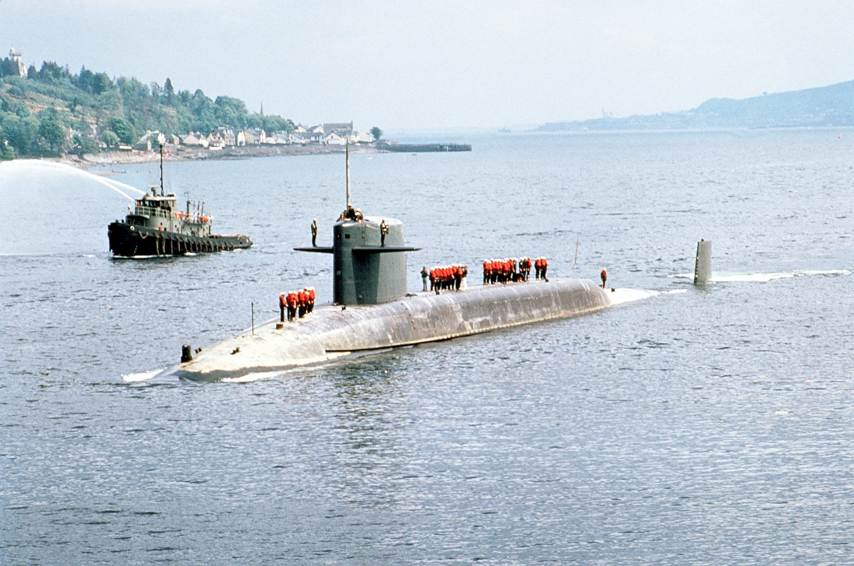 The nuclear-powered strategic missile submarine USS JOHN C. CALHOUN (SSBN-630) enters Holy Loch Refit Site One, accompanied by the large harbor tug Saugus (VTB-780).